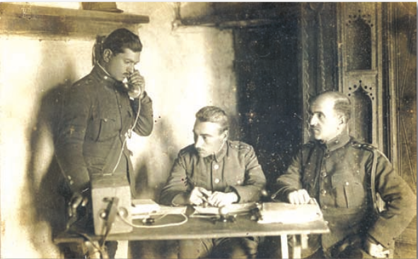 Staff of Greek Independent Division, Asia Minor, October 1921. Commander colonel D. Theotokis (center), chief of staff colonel G. Kordzas (right).